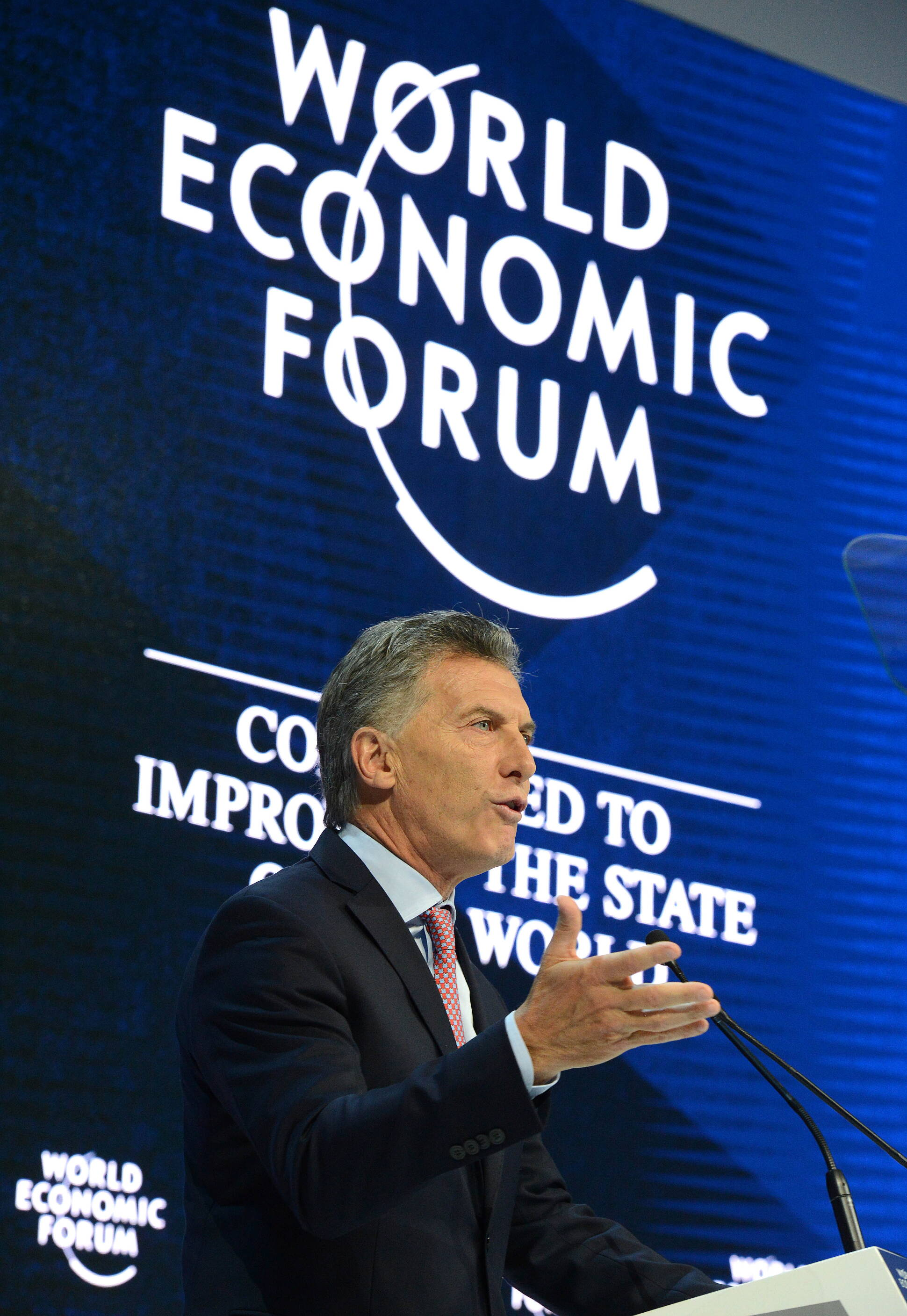 Mauricio Macri exposing at the 2018 World Economic Forum